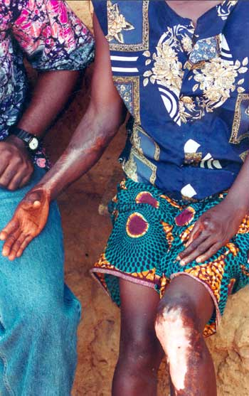 Healed Buruli ulcer lesions with scarring, right forearm and left knee in a Ghanaian woman.